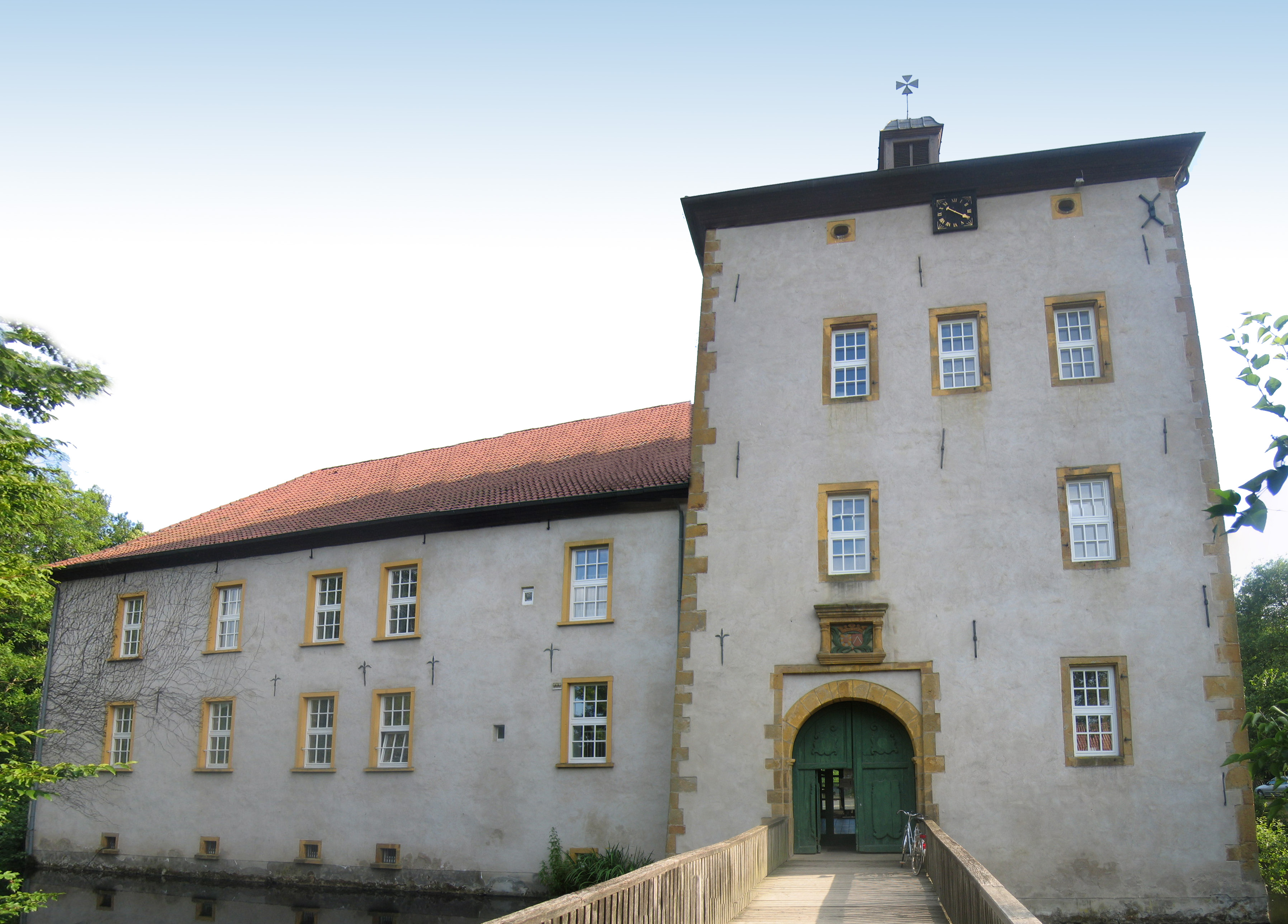 Bustedt Castle in Hiddenhausen, District of Herford, North Rhine-Westphalia, Germany.